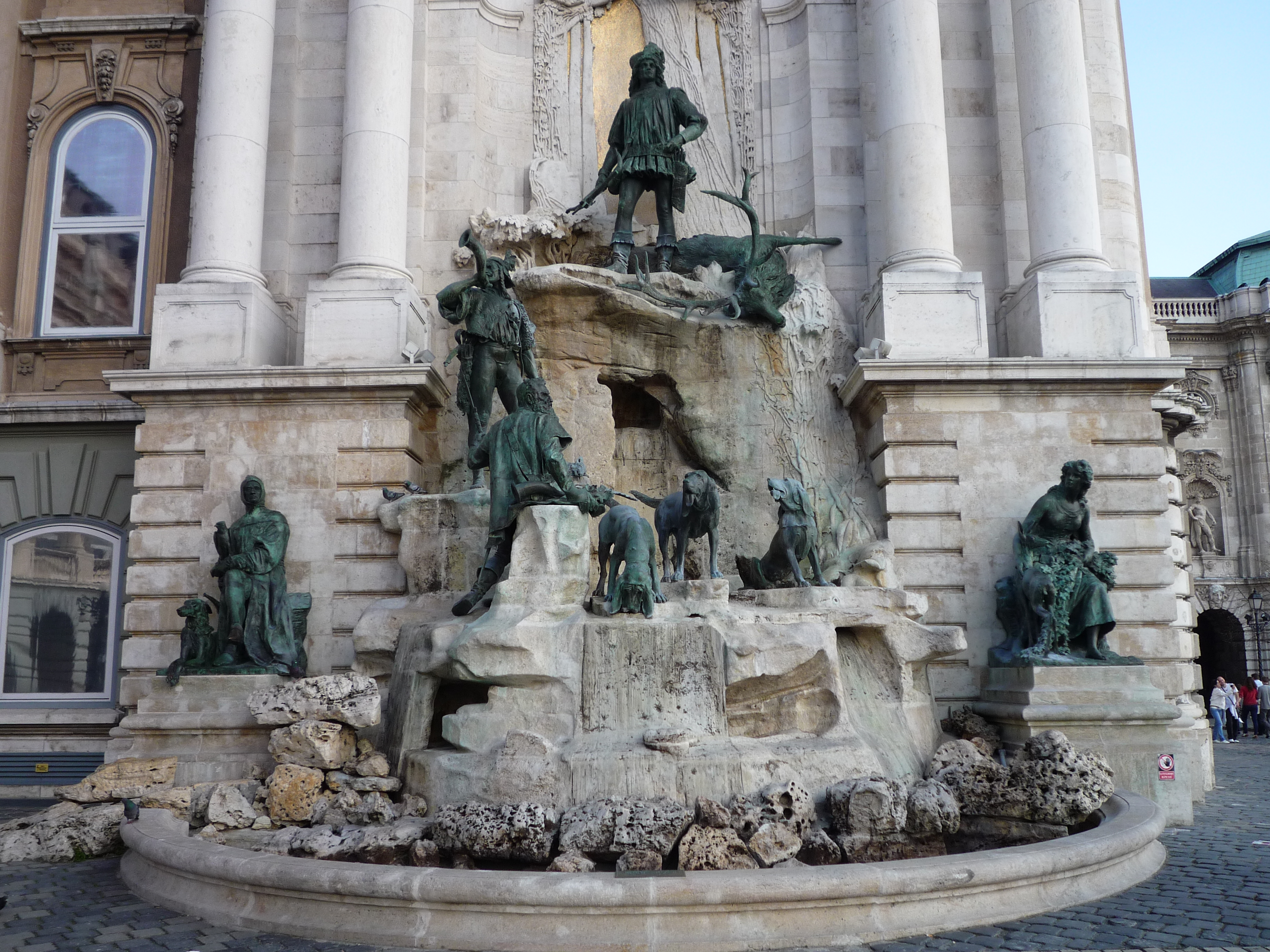 The restored Matthias Fountain in Buda Castle